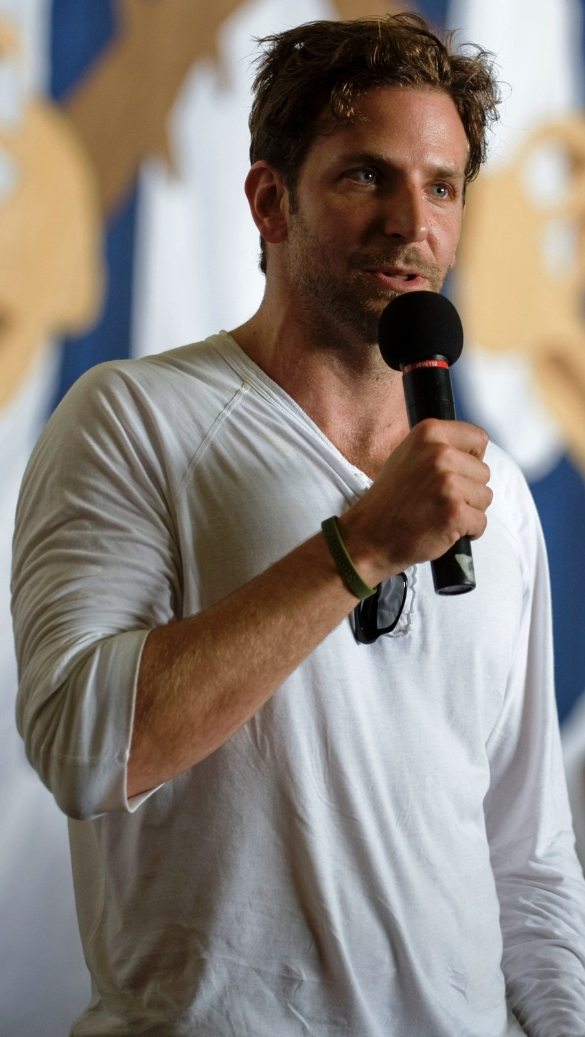 Actor Bradley Cooper addresses the crew aboard aircraft carrier USS Ronald Reagan (CVN 76), under way in the Gulf of Oman, July 13, 2009, during a United Service Organizations (USO) tour.